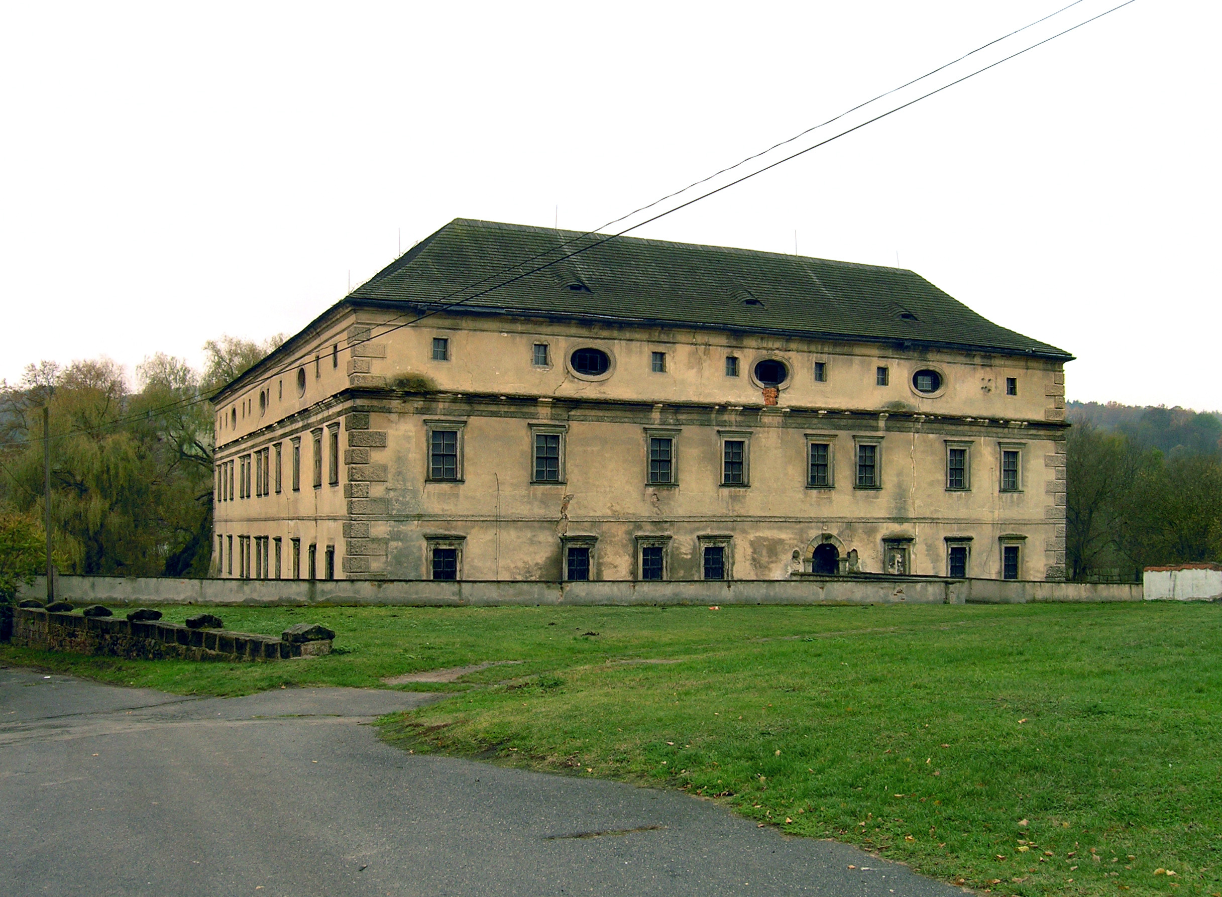 Castle in Stvolínky village, Czech Republic